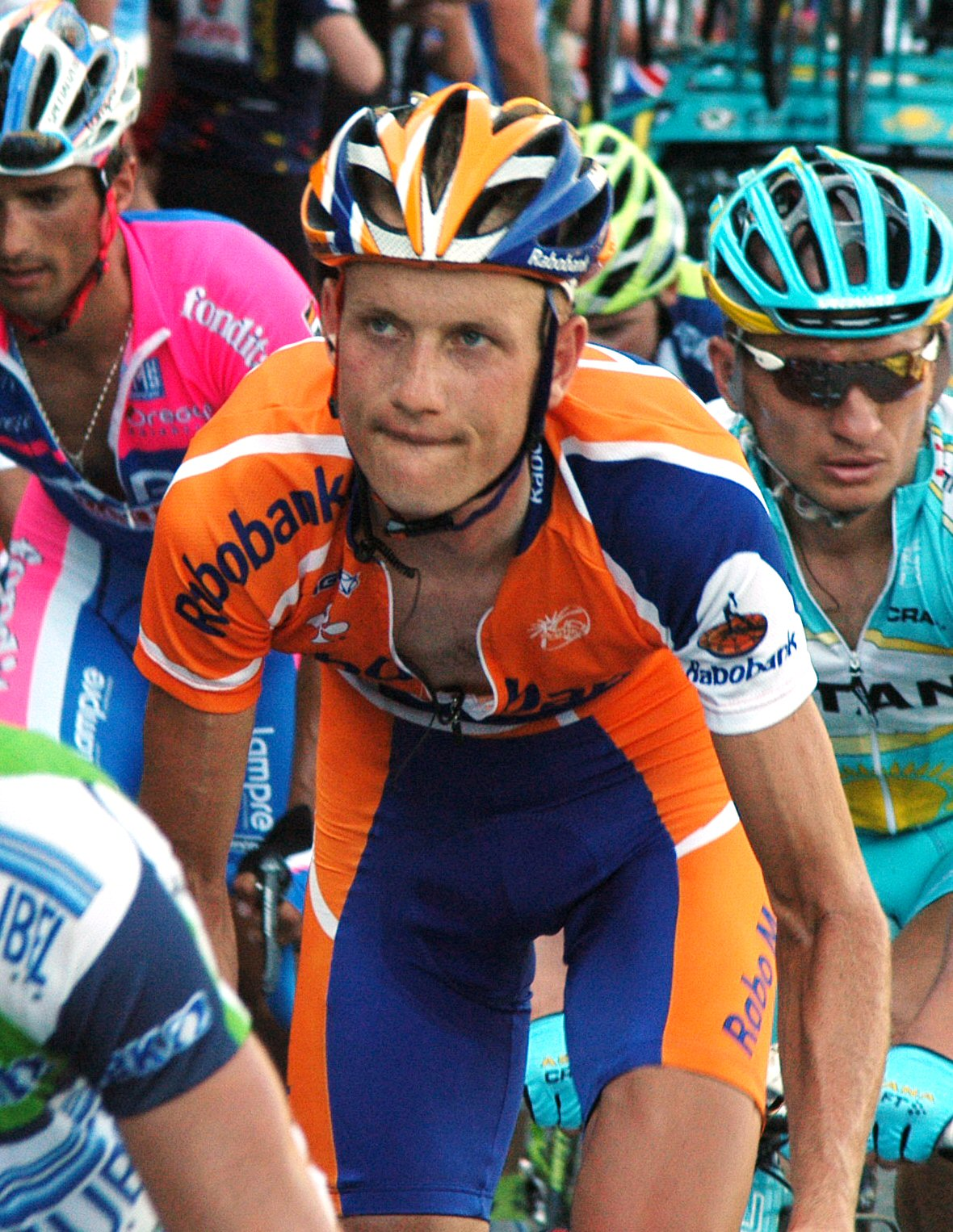 Pieter Weening at stage 7 of the Tour de France 2007 on the Col de la Colombière.